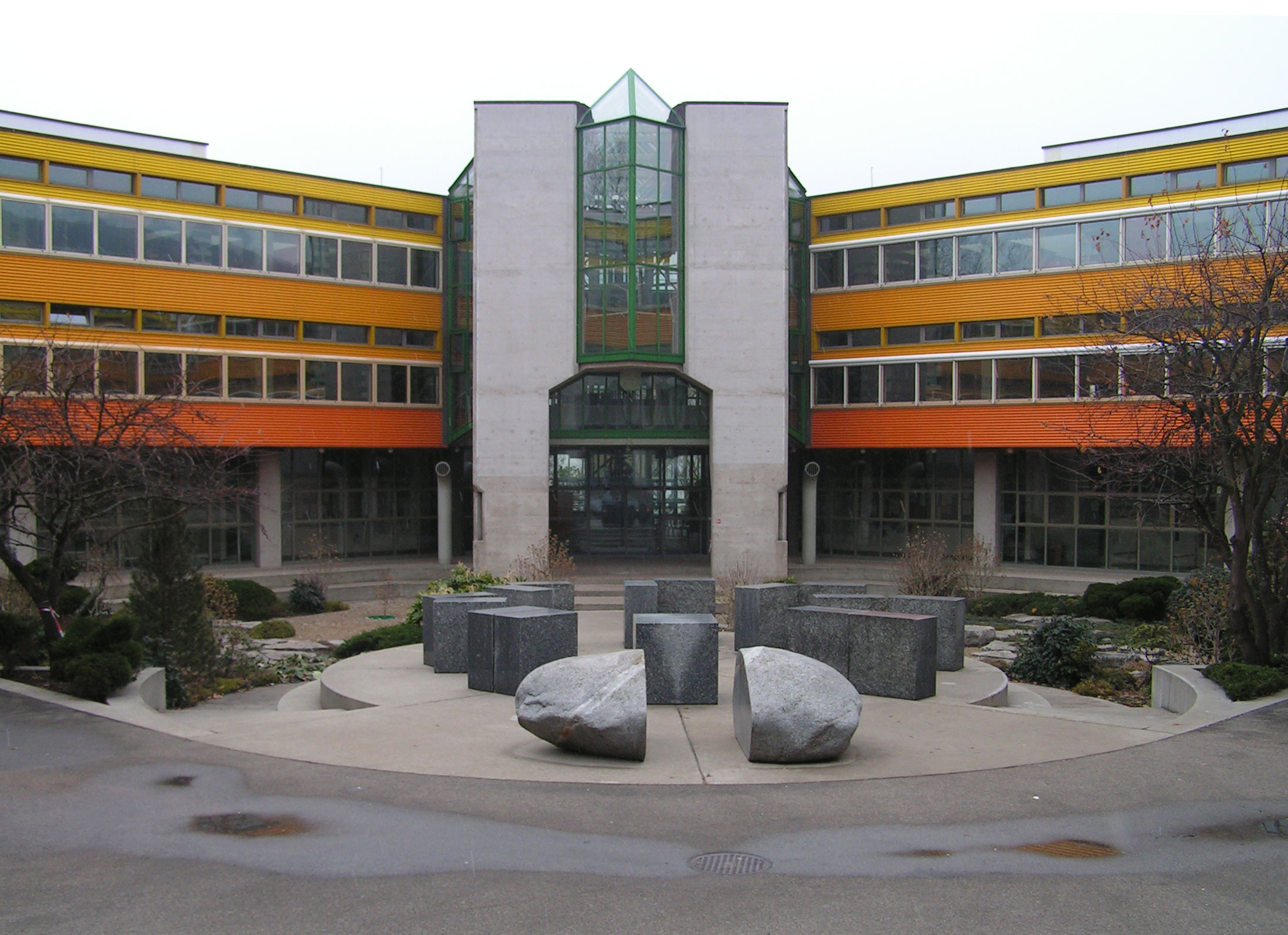 Artist :Gianfredo Camesi Title : «Anamorphose», Neuchâtel, Switzerland. 1985.